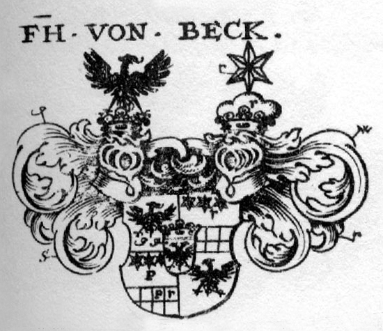 Coat of Arms of Beck, Barons, Austria